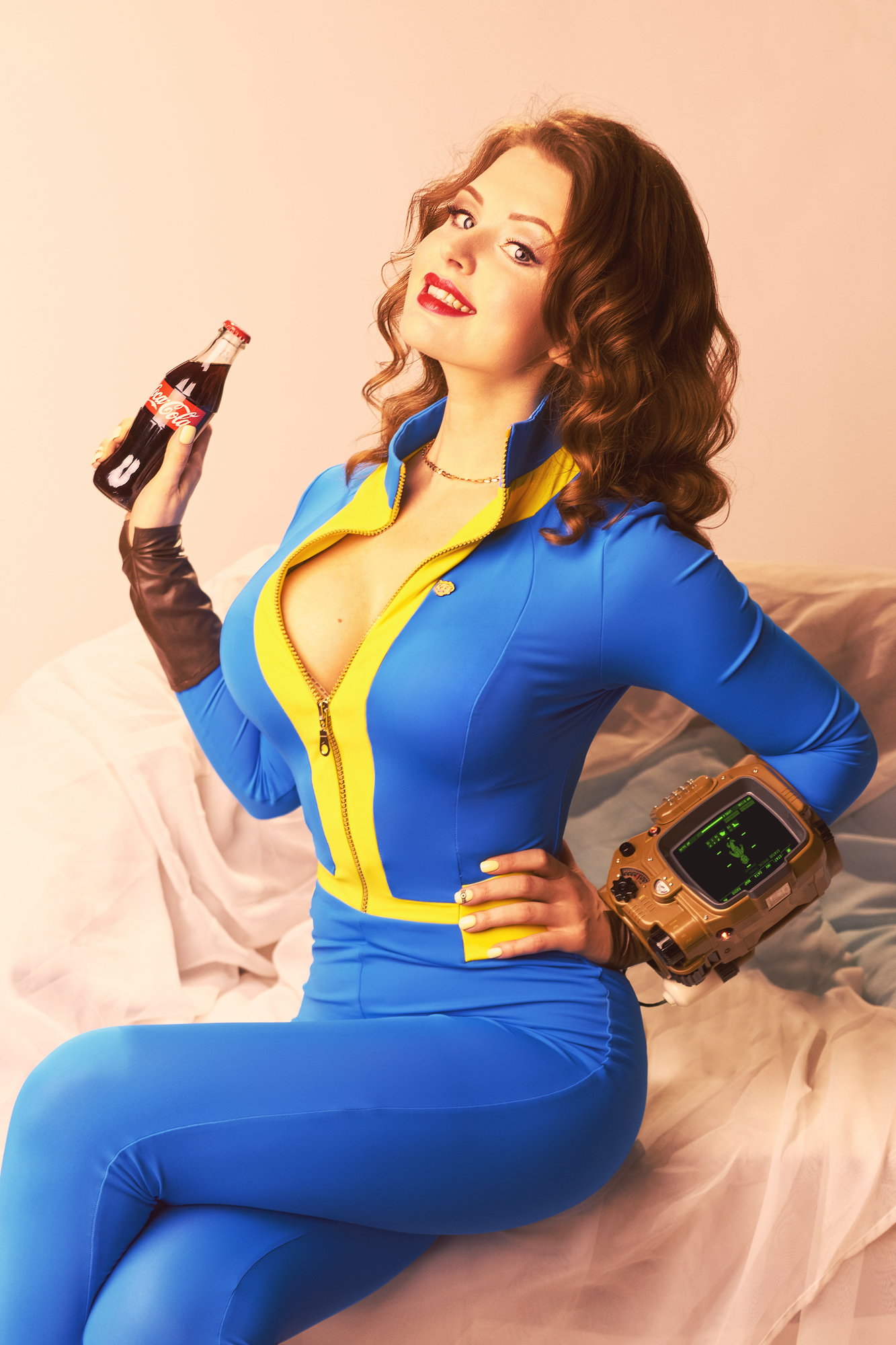 Pin-up style Fallout 4 cosplay featuring a young lady dressed as a vault survivor wearing a Pip-Boy which is an in-game device representing a portable personal computer. Photographer: Makar Vinogradov. Cosplayer: Galina Zhukovskaya.